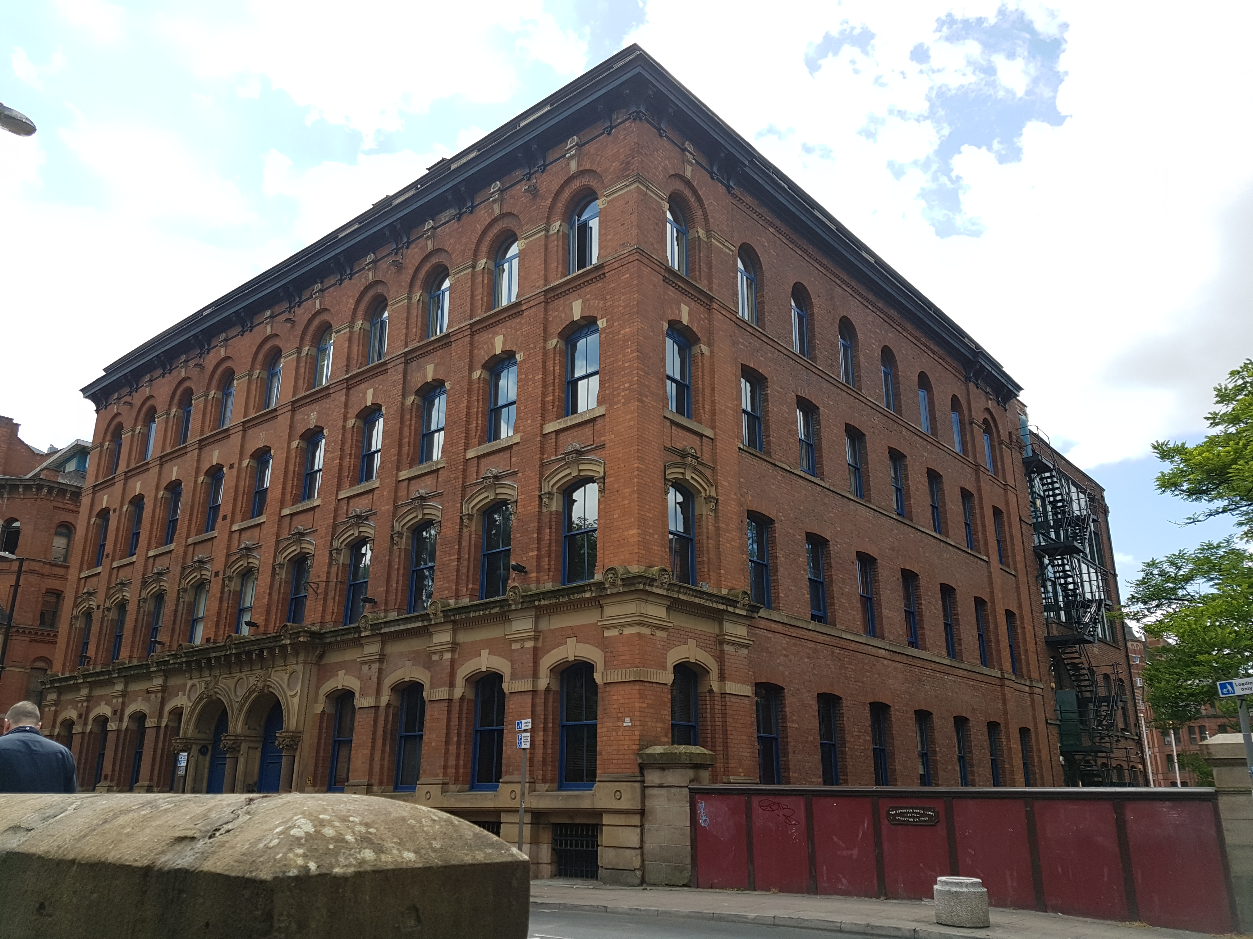 42-44 Sackville Street, seen from the corner of Sackville and Canal Street, looking South West